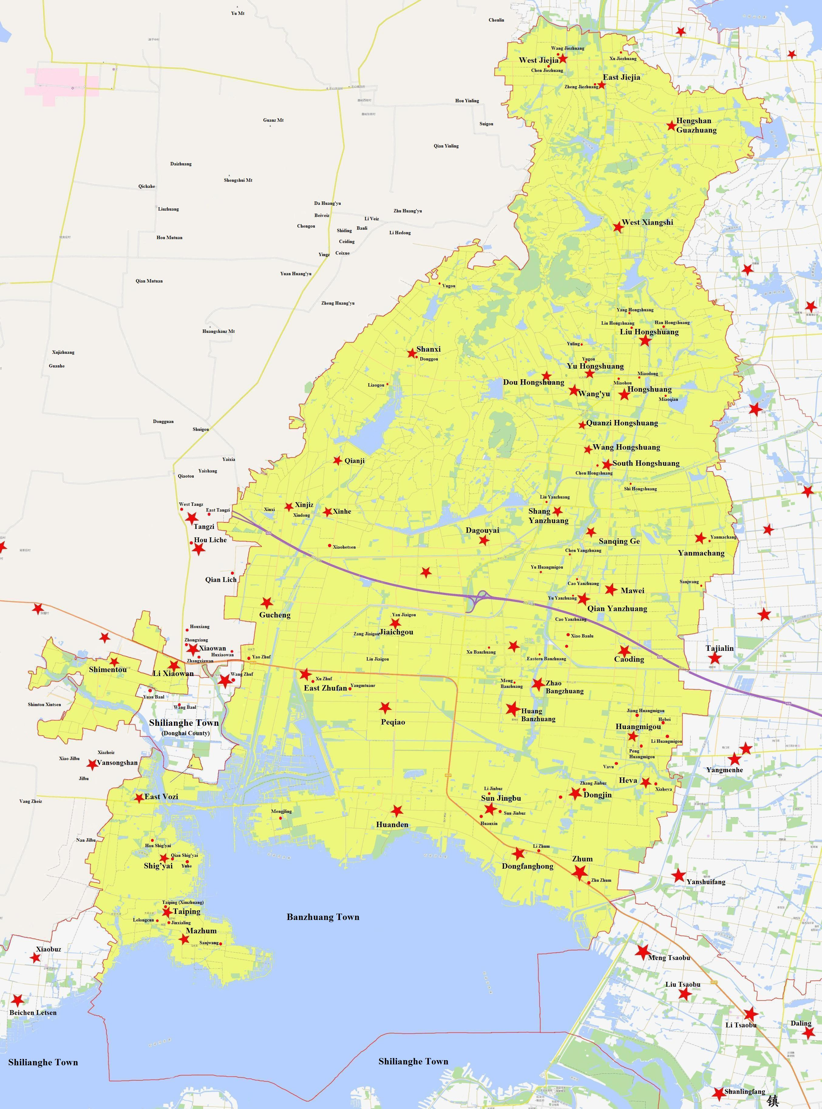 Administrative Map of Banzhuang Town, Ganyu, Jiangsu